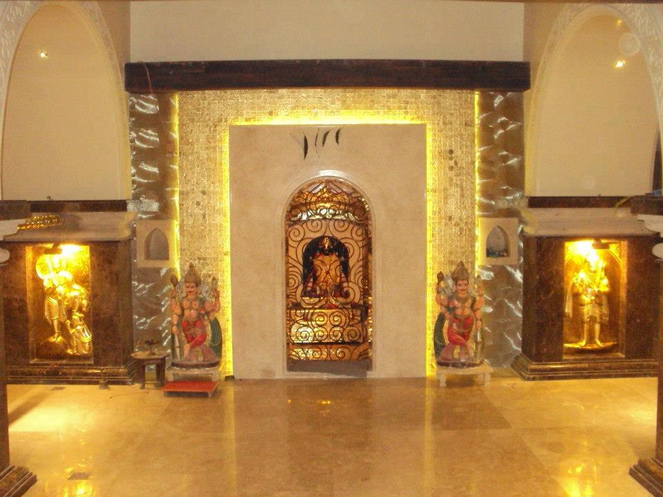 DEV NARYAN NEW1